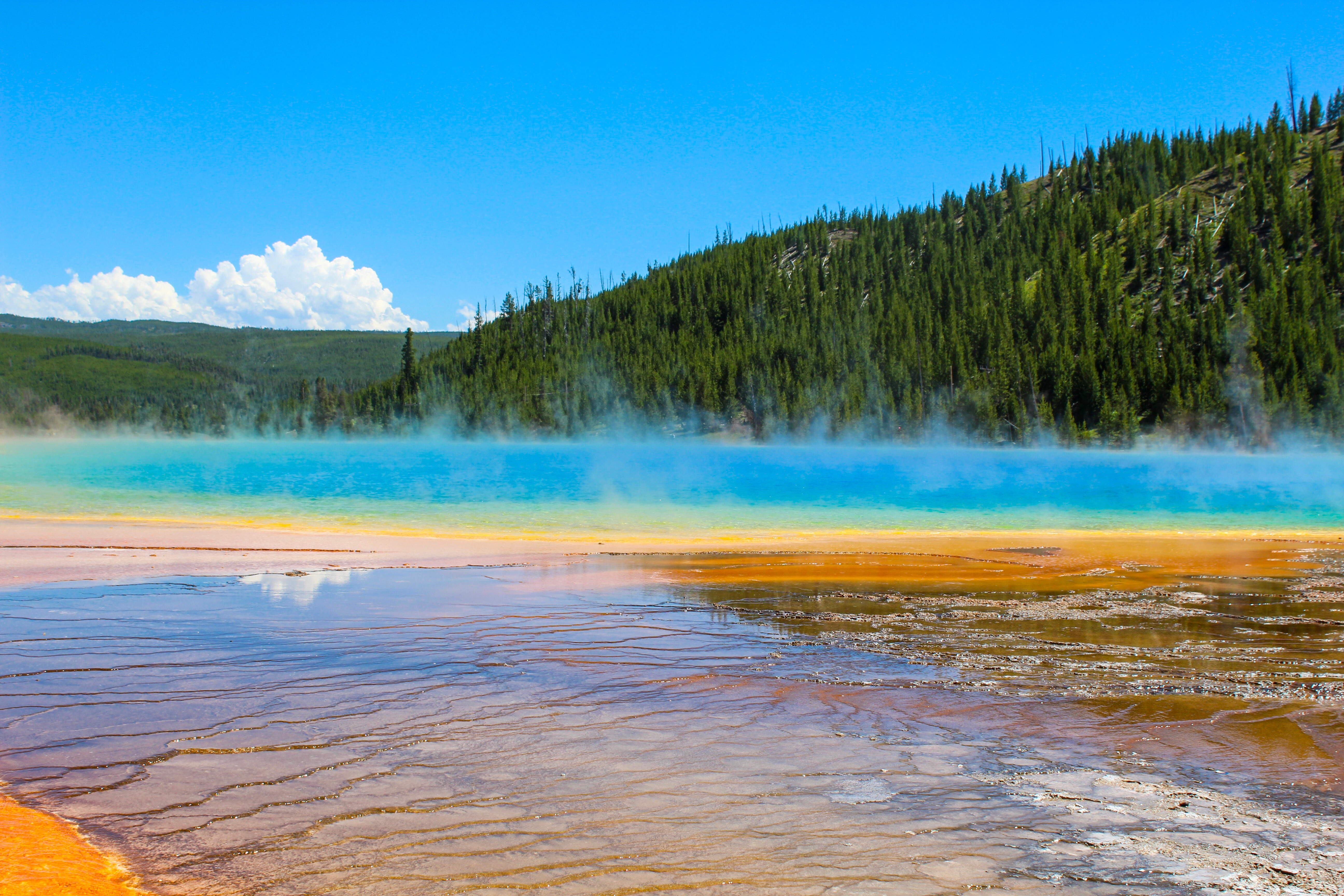 By Vivian Mallette 7-12-2019